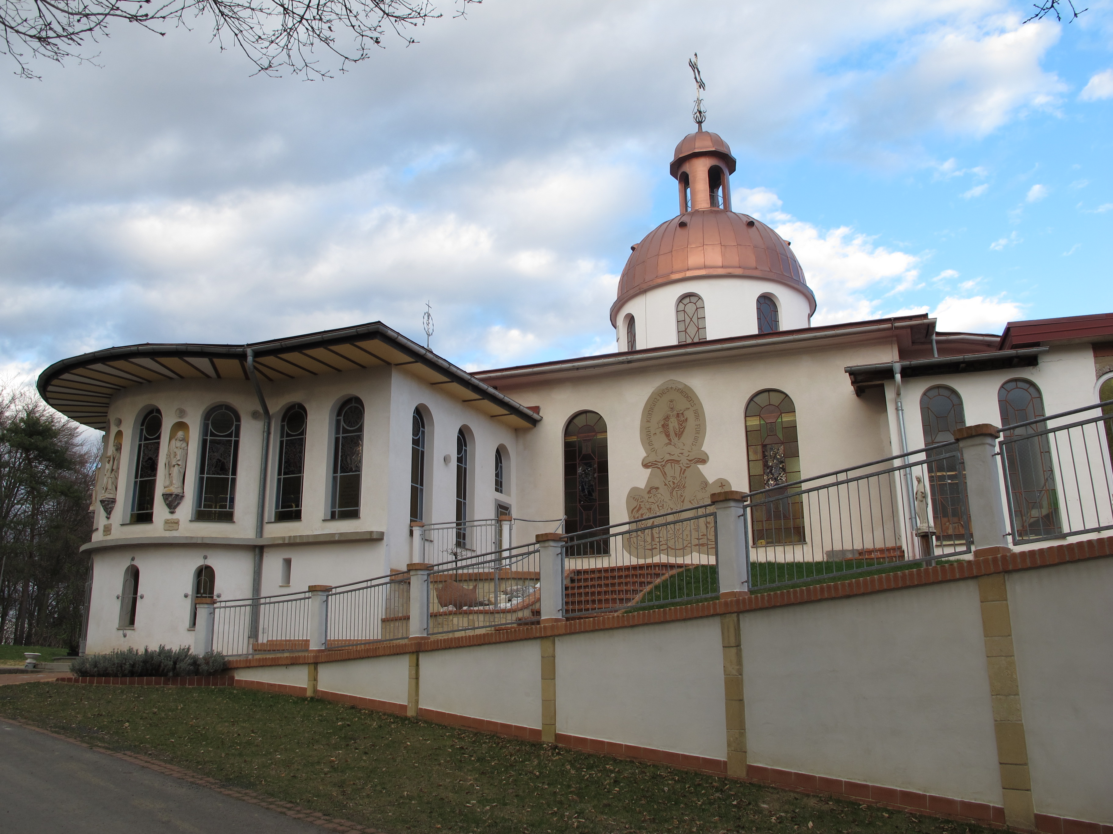 Fatima Kapelle Troessing